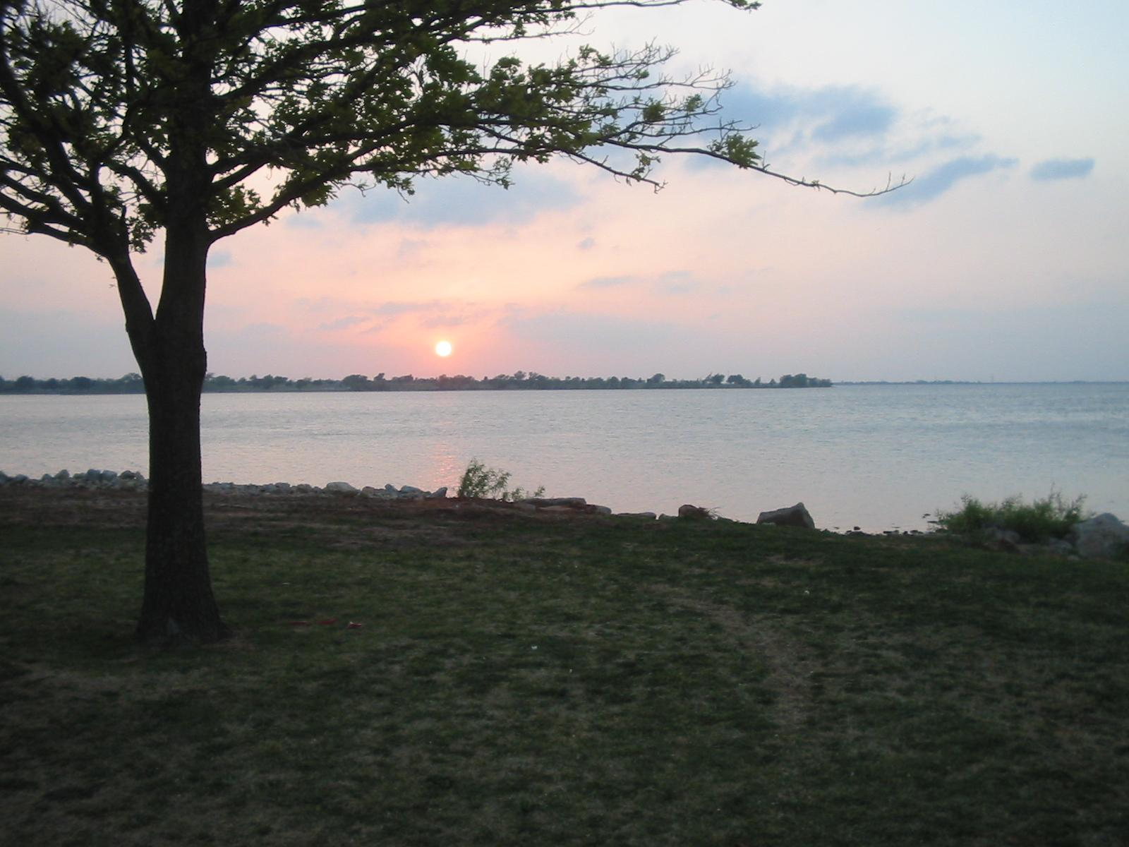 A sunset over Lake Hefner in Star and Stripes Park, Oklahoma City, Oklahoma, USA.